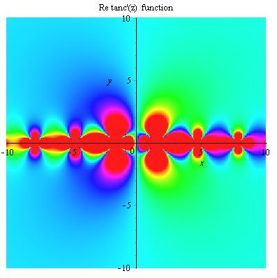 Tanc'(z) Re plot